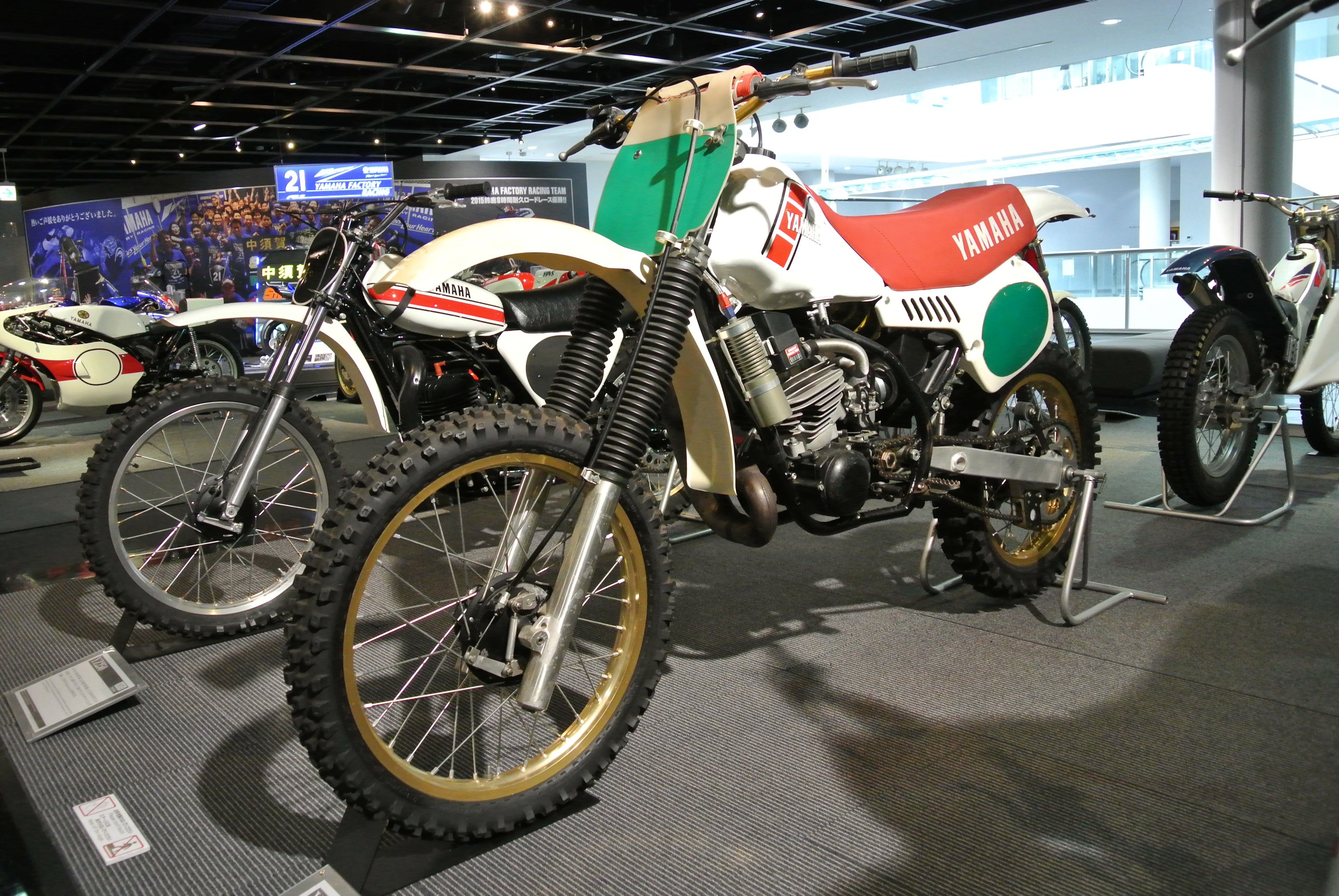 1981 Yamaha YZM250 (OW50) in the Yamaha Communication Plaza.